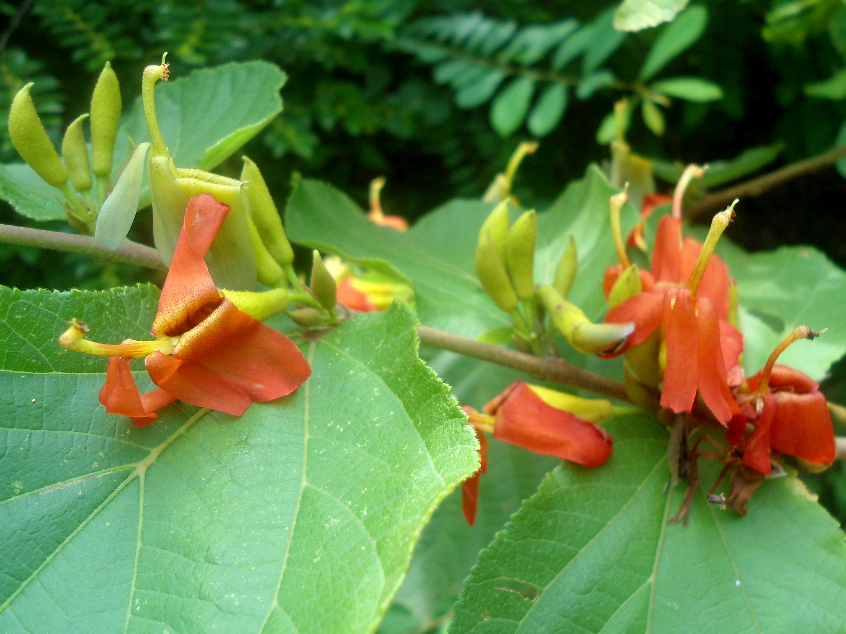 (Helicteres isora) East Indian screw tree seed at Kambalakonda wildlife Sanctuary, Visakhapatnam